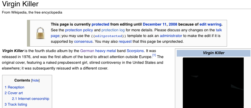 Wikipedia article on Virgin Killer - For use on IWF reverses censorship of Wikipedia . Note: Fair Use image removed for copyright reasons.